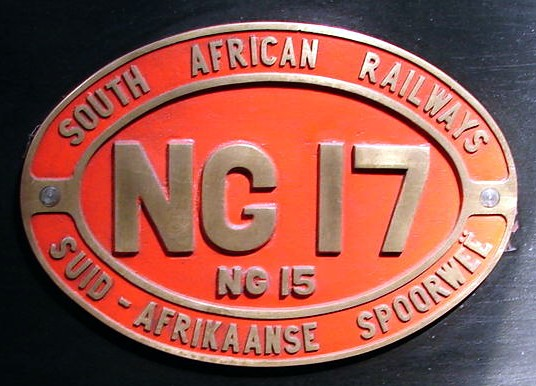 SAR Class NG15 17 (2-8-2) number plate Builder's Number: Henschel 21905 Location: Sandstone Estates, Ficksburg, Free State